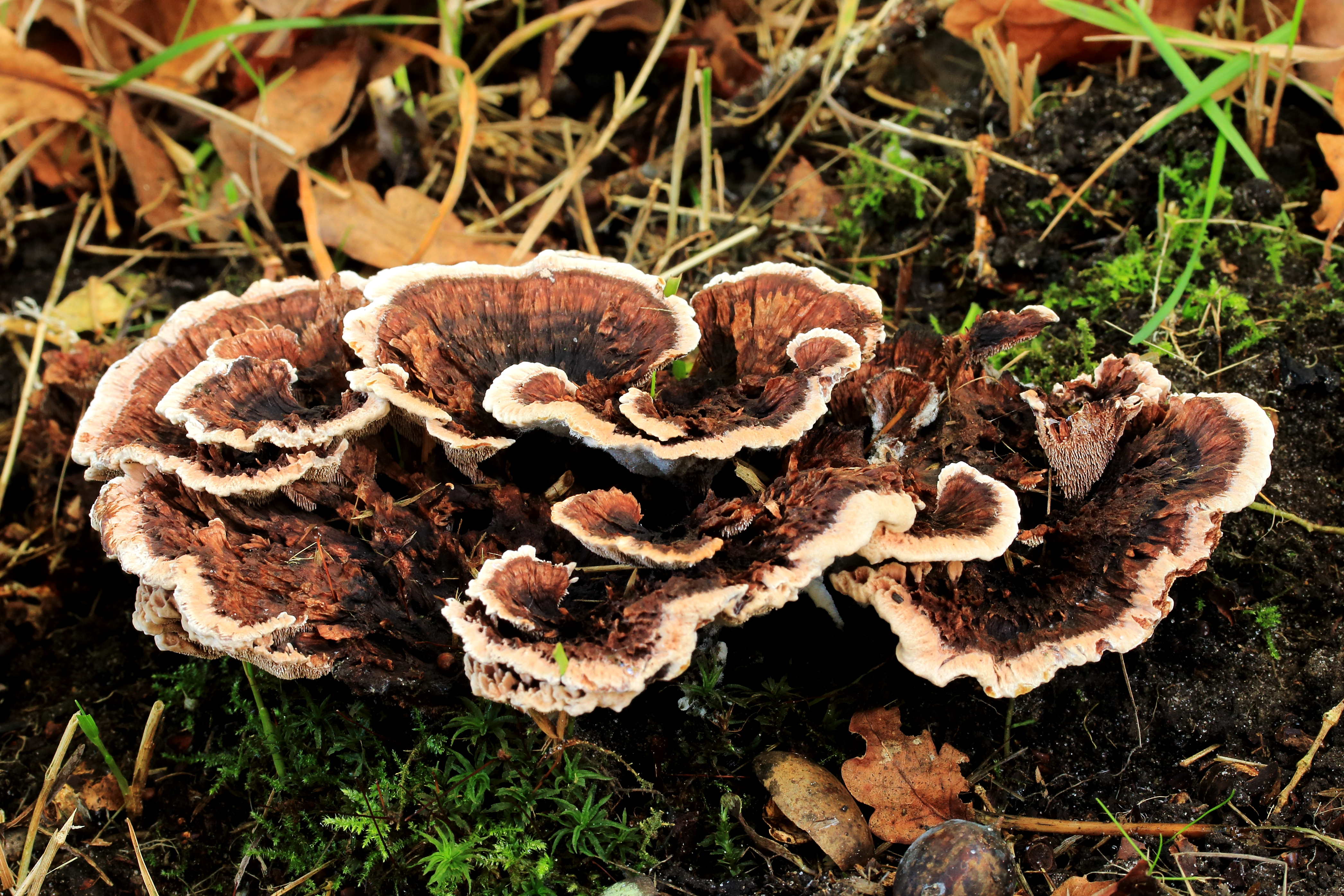 Zoned spine agaric (Hydnellum concrescens) Location, Hortus (Haren, Groningen).